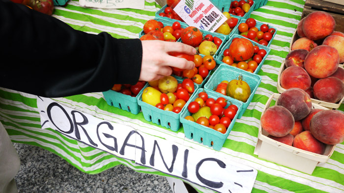 A hand reaching for organic tomatoes at a farmer's market in North America.